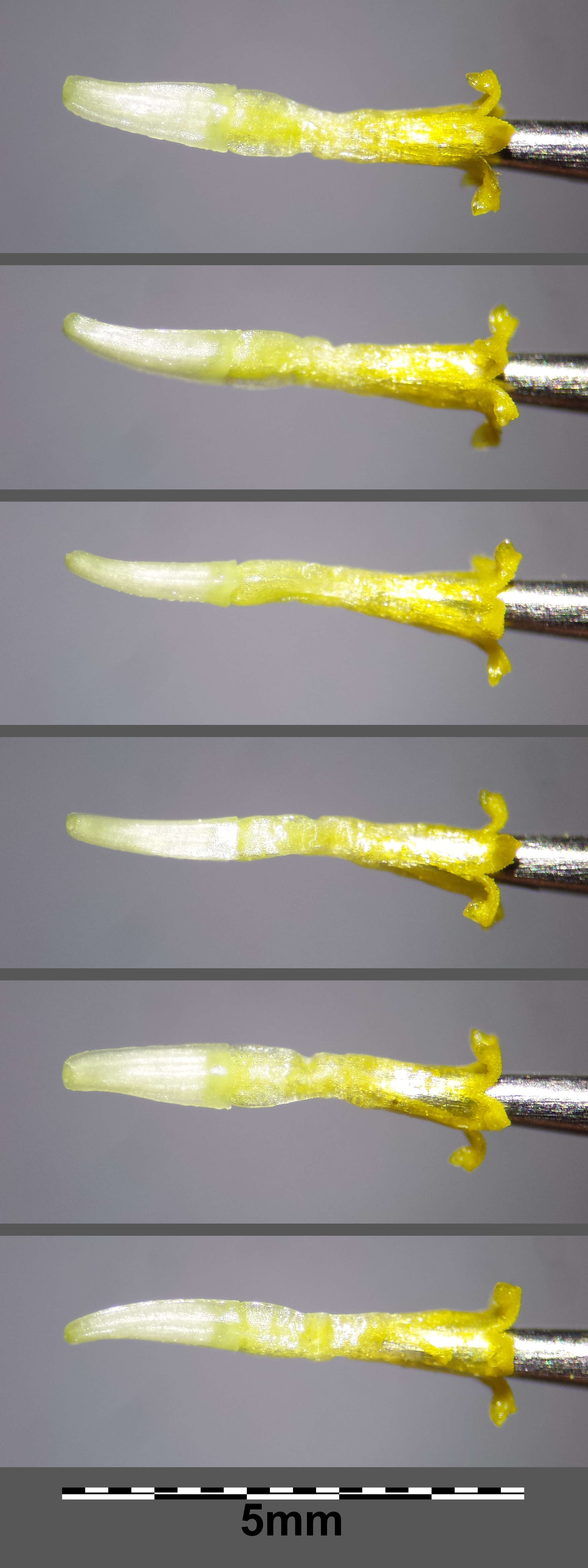 Disc floret Taxonym: Anthemis austriaca ss Fischer et al. EfÖLS 2008 ISBN 978-3-85474-187-9 Location: near Steinberg near Niederhollabrunn, district Korneuburg, Lower Austria - ca. 300 m a.s.l. Habitat: border of a field